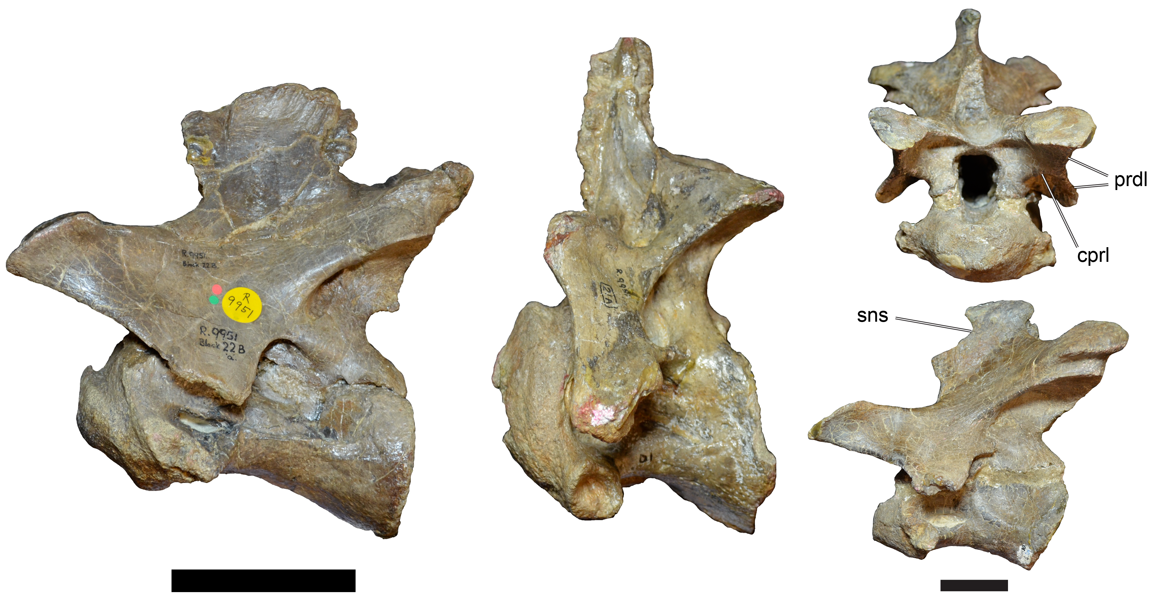 Left: NHMUK PV R 9951, C6 cervical (neck) vertebra of Baryonyx walkeri in left lateral view; NHMUK PV R 9951, C9 of Baryonyx walkeri in left lateral view. Note the extreme morphological changes in centrum length, orientation of prezygapophzses, and shape of the neural spine in both taxa. For discussion of axial placement of Baryonyx vertebrae see main text. Scale bar equals 10 cm. Right: Ce4 of Baryonyx in anterior view; Ce4 of Baryonyx in left lateral view. Scale bar equals 5 cm.